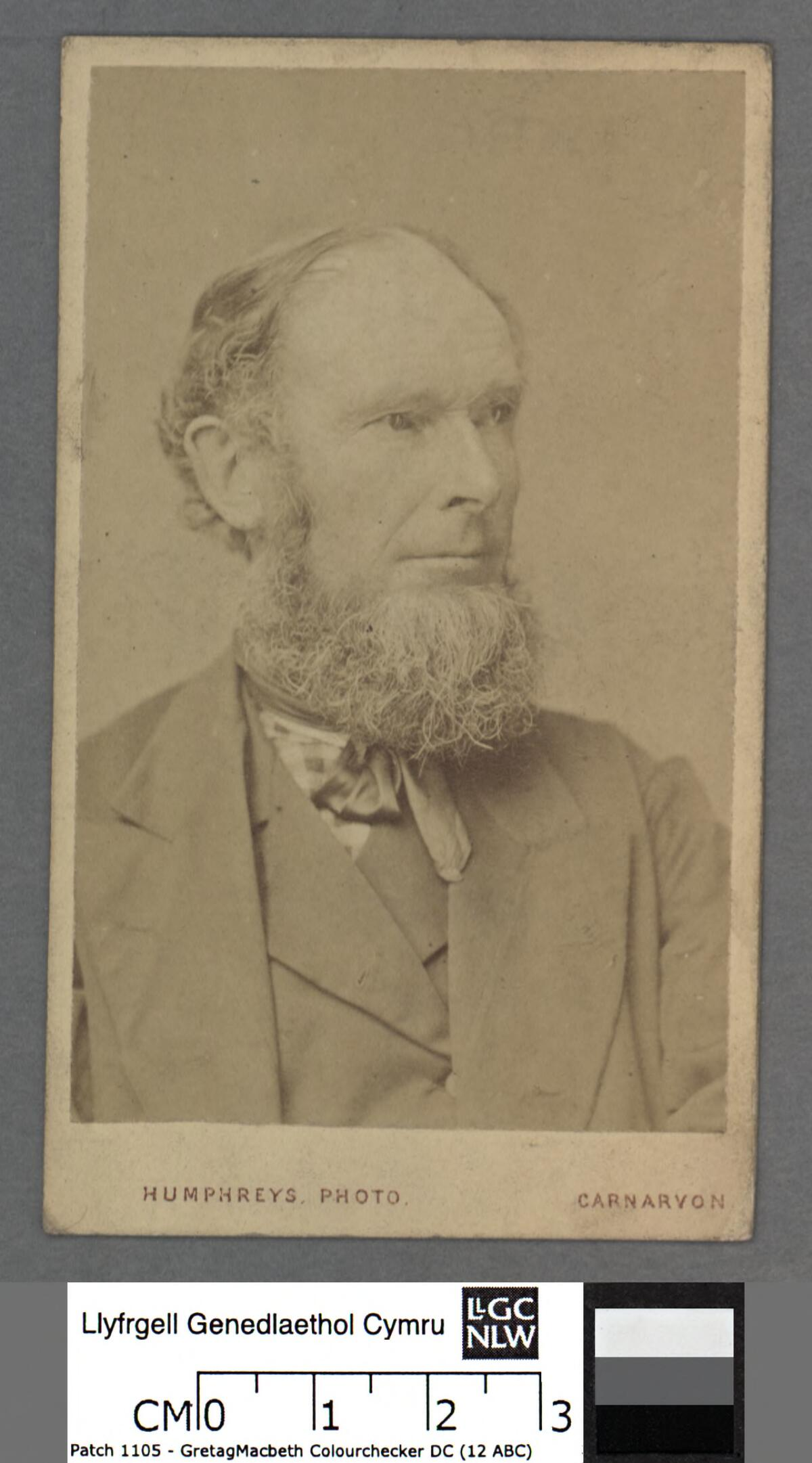 A portrait from the Welsh Portrait Collection at the National Library of Wales. Depicted person: Owen Gethin Jones – Welsh writer, carpenter, local historian and antiquarian